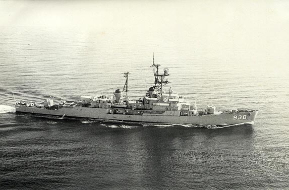 The U.S. Navy destroyer USS Jonas Ingram (DD-938) underway at sea in 1972, after her ASW-modernization.